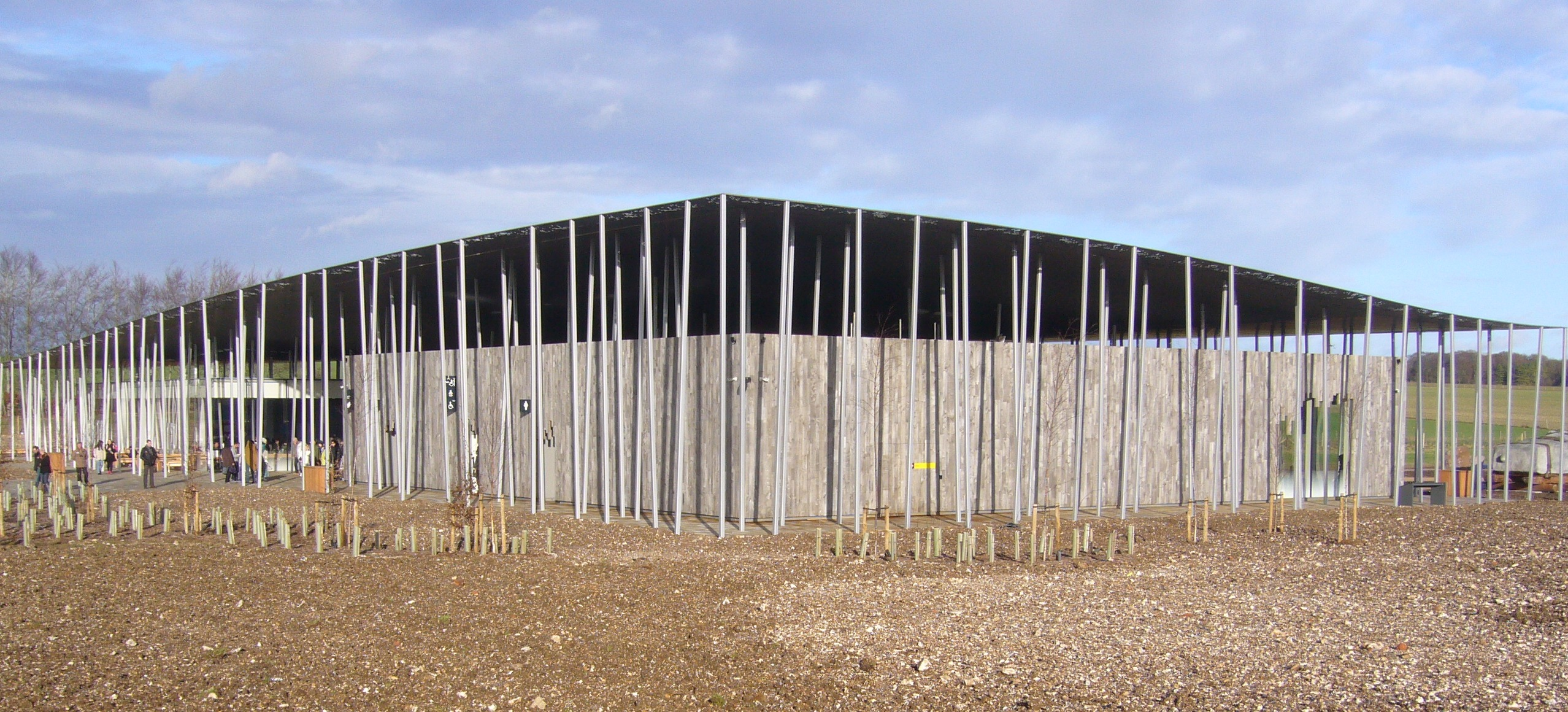 Opened in December 2013, over 2 kms west of the monument, just off the A360 road in Wiltshire.